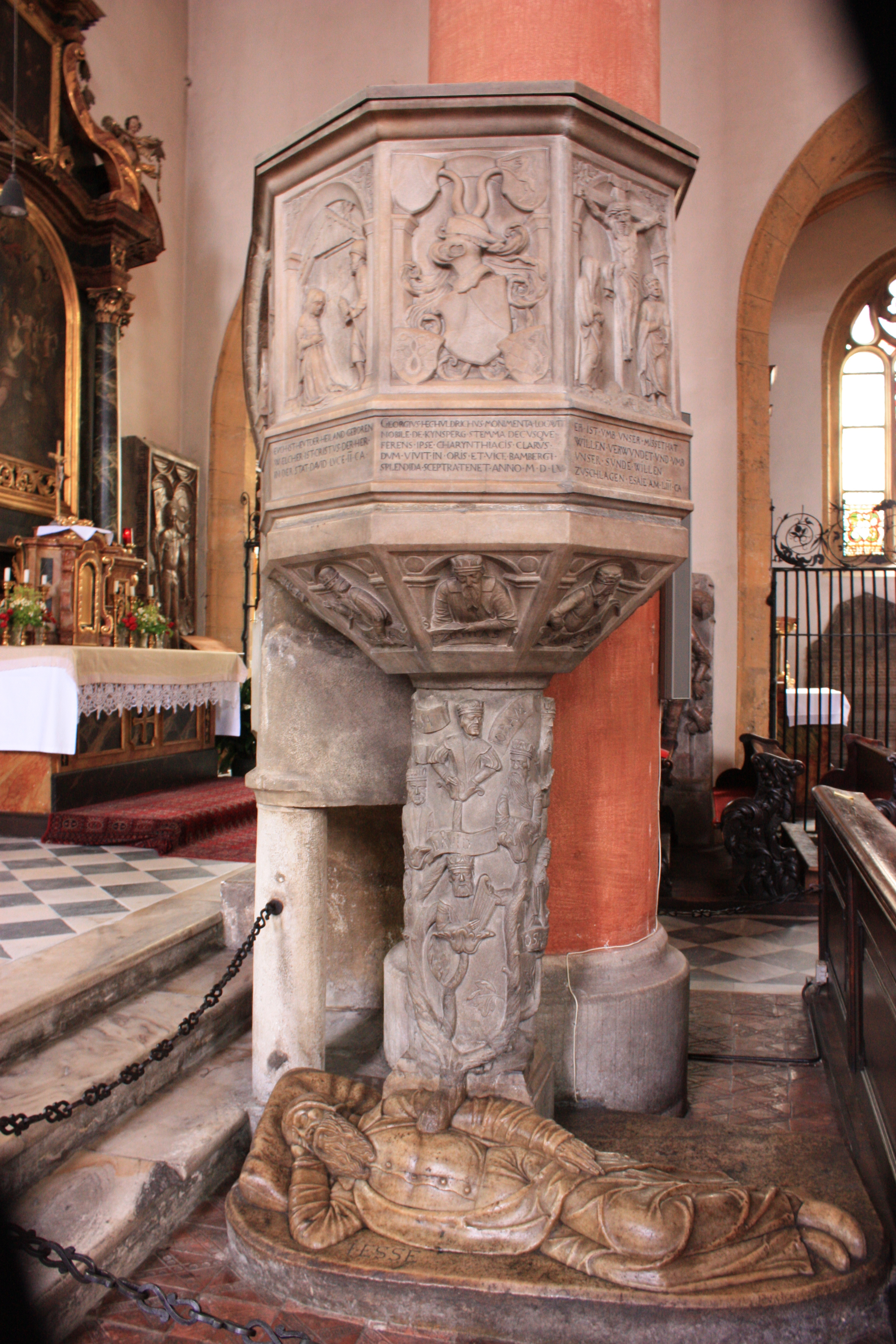 Parish church Saint Jakob: Pulpit Street:Kirchenplatz Community:Villach